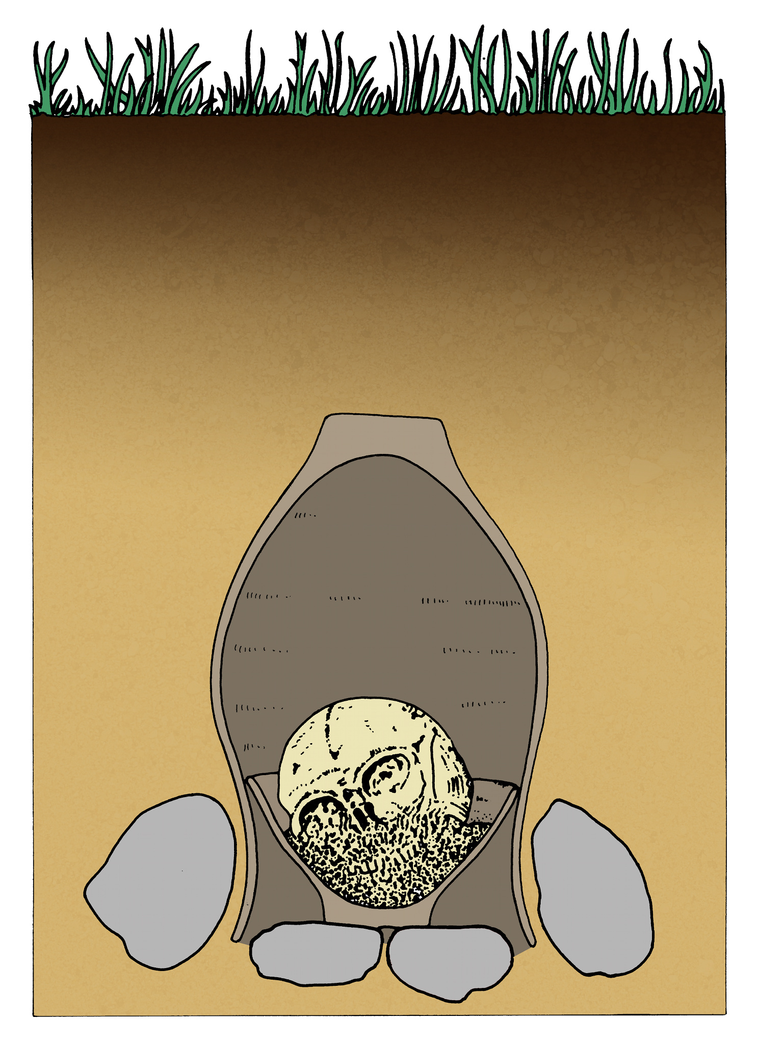 Illustration of burial in situ. circa 2200 BC date QS:P,-2200-00-00T00:00:00Z/9,P1480,Q5727902 Neolithicera QS:P2348,Q36422.